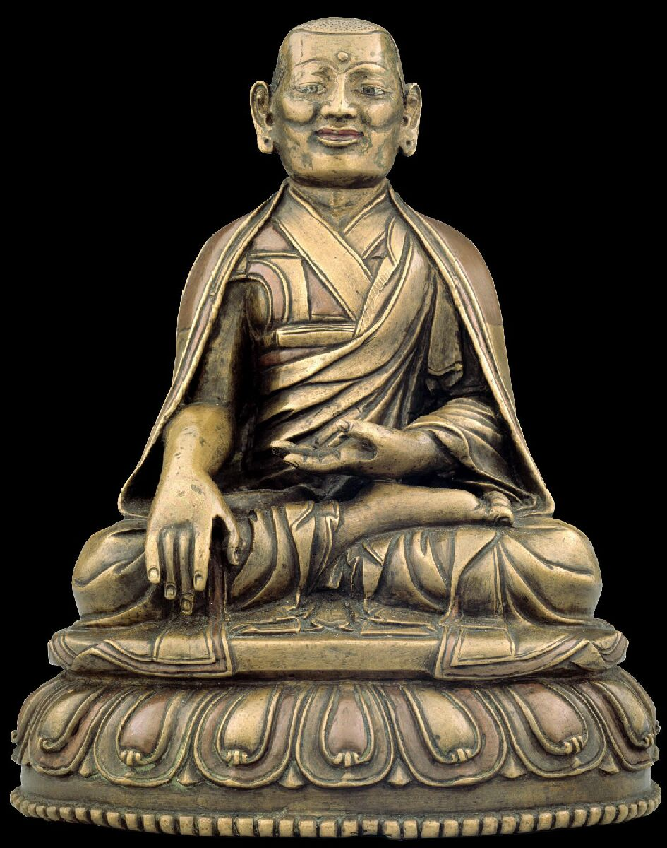 Lama Dampa Sonam Gyeltsen (b.1312 - d.1375) 14th Sakya Trizin